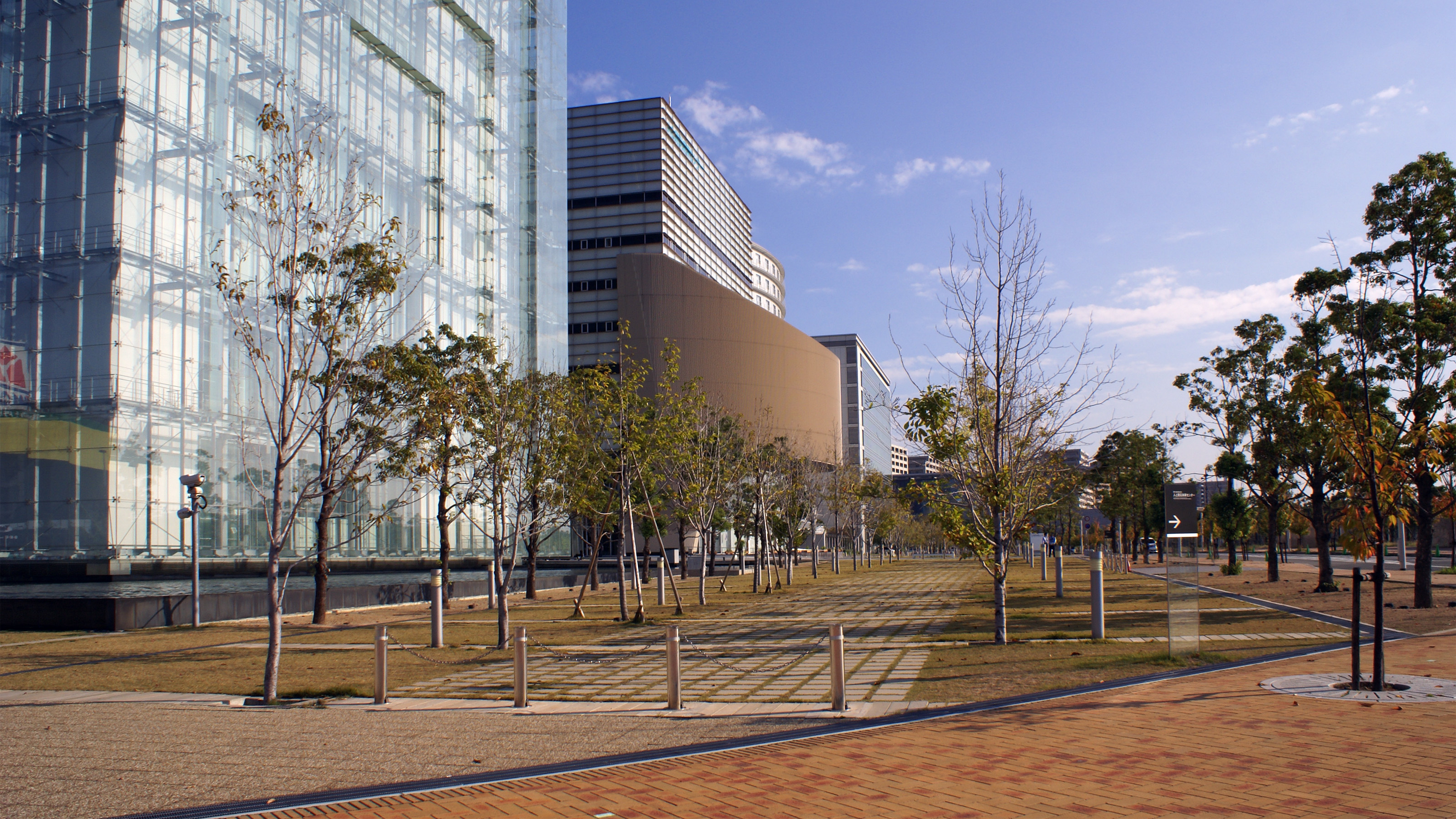 Disaster Reduction and Human Renovation Institution in HAT Kobe, Kobe, Hyogo, Japan